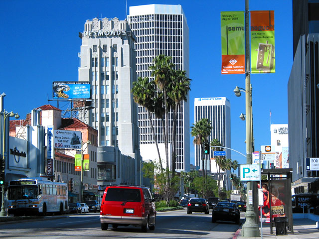 Miracle Mile as seen from near Wilshire & La Brea in early 2004.